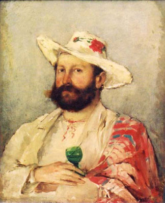 Portrait of Alexandr Brandejs (1848 - 1901)